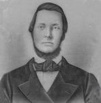 William Ripley Brown, United States Representative from Kansas (1875–77)